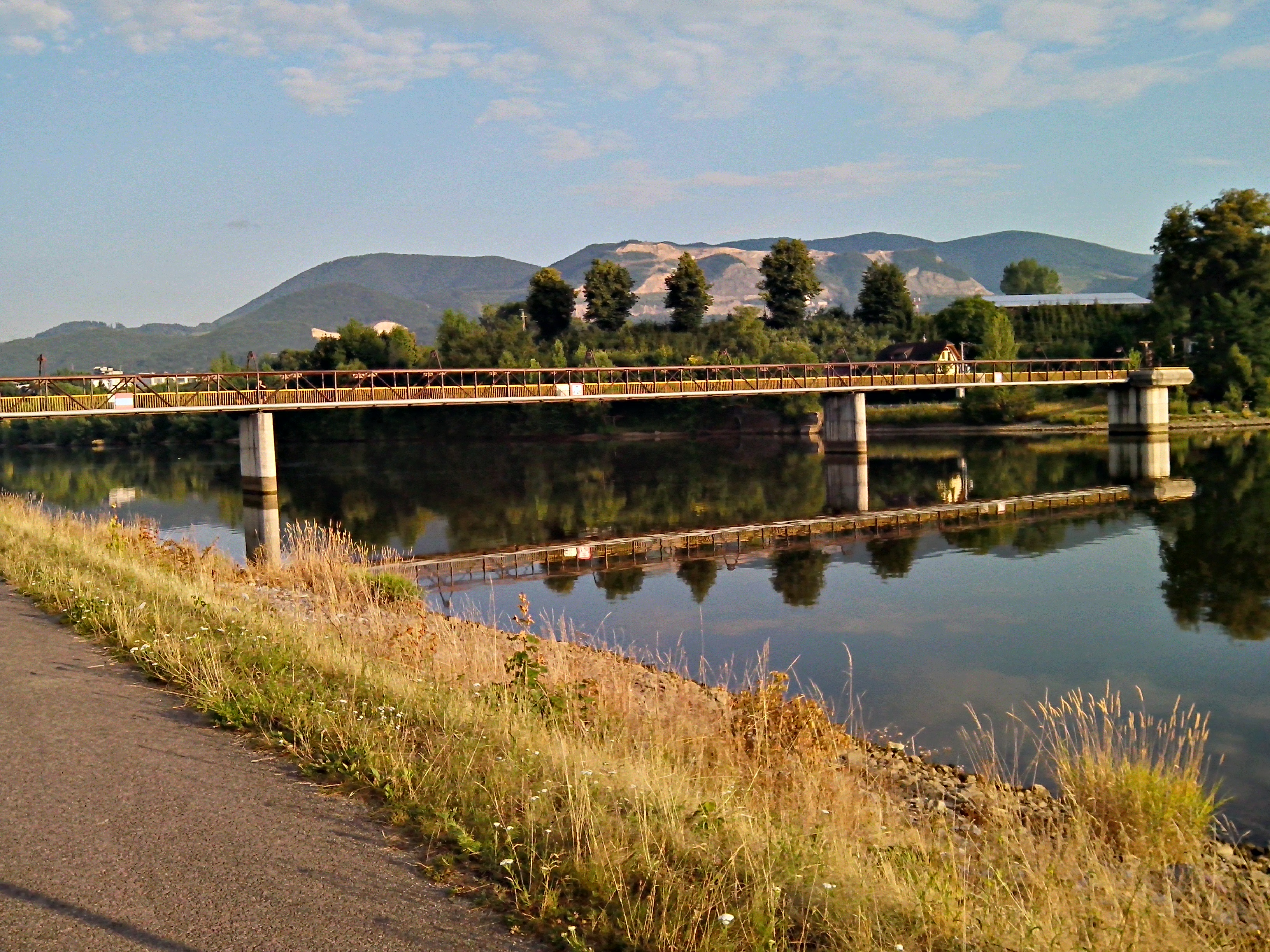 Photo of bridge in Mojs on Zilina reservoir. Nearby Zilina